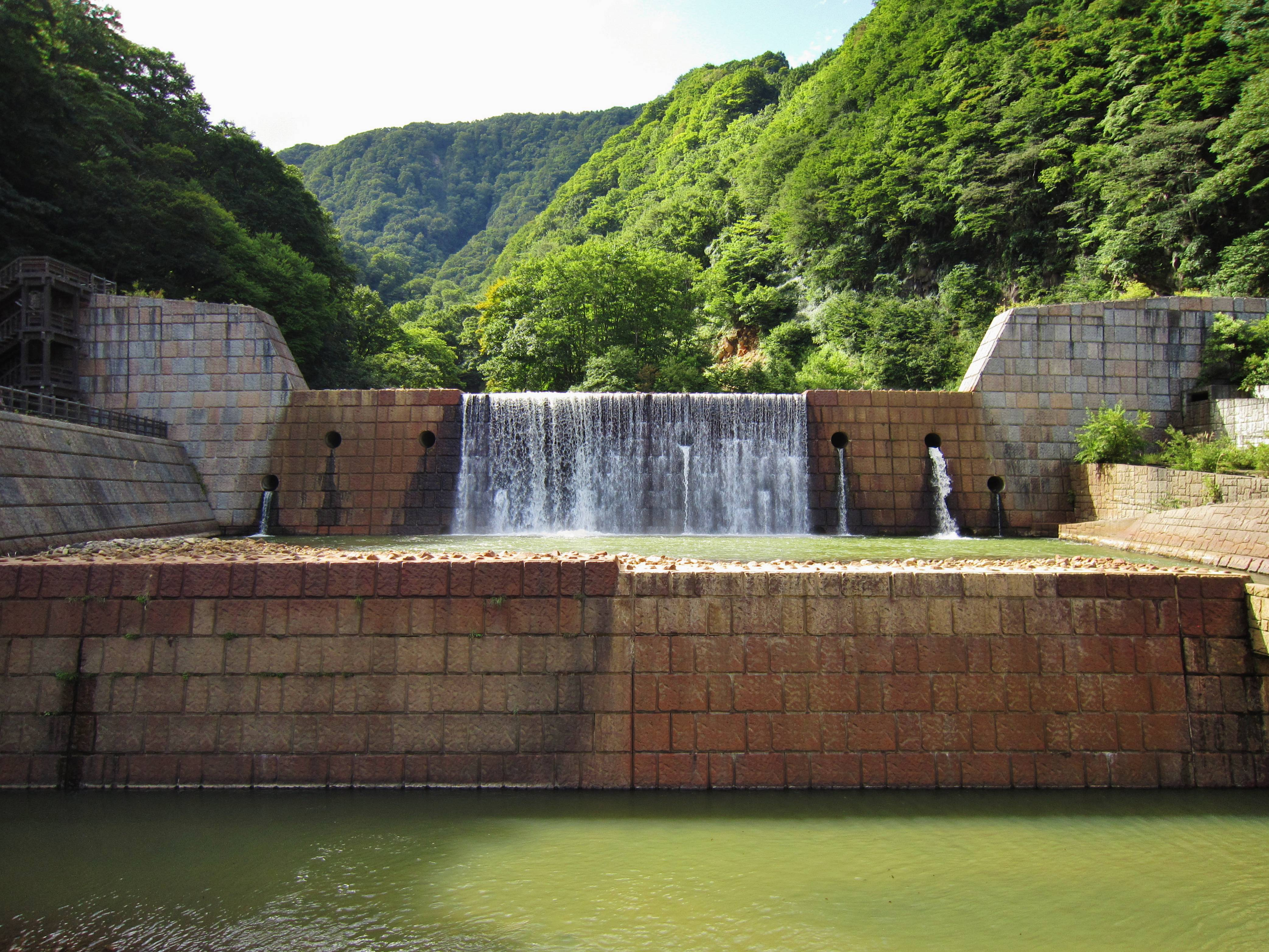 Seki River No. 1 check dam.